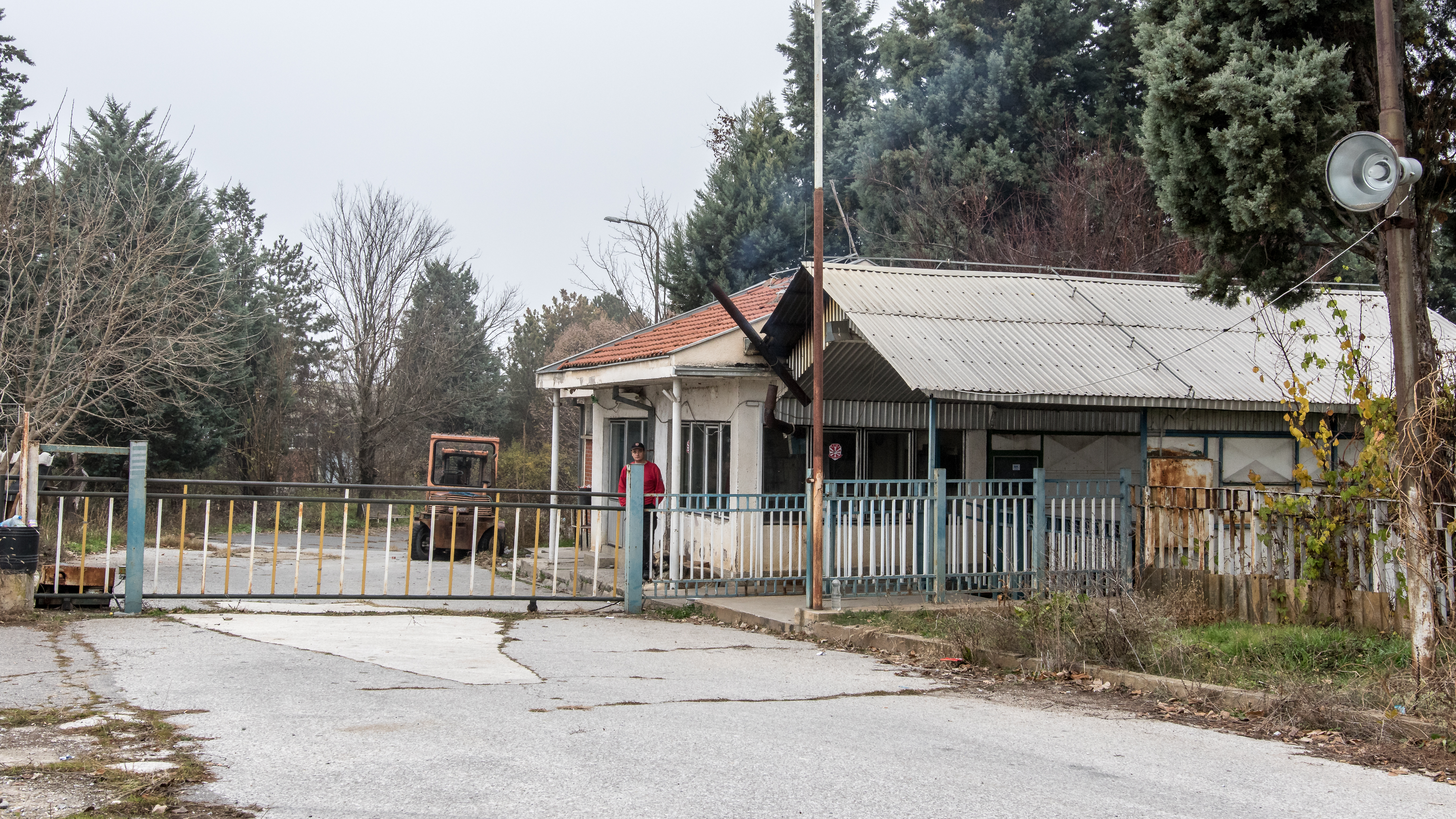 Former industrial complex near the village Zgropolci